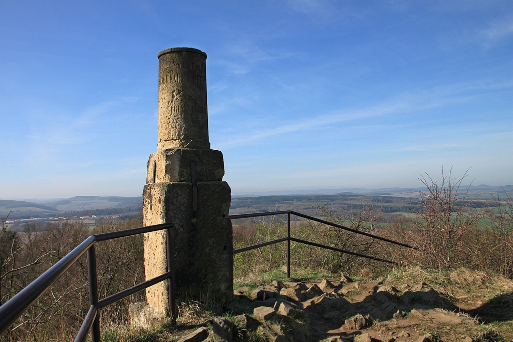 triangulation point (1865) on top of the Cottaer Spitzberg (391 m) south of Pirna.